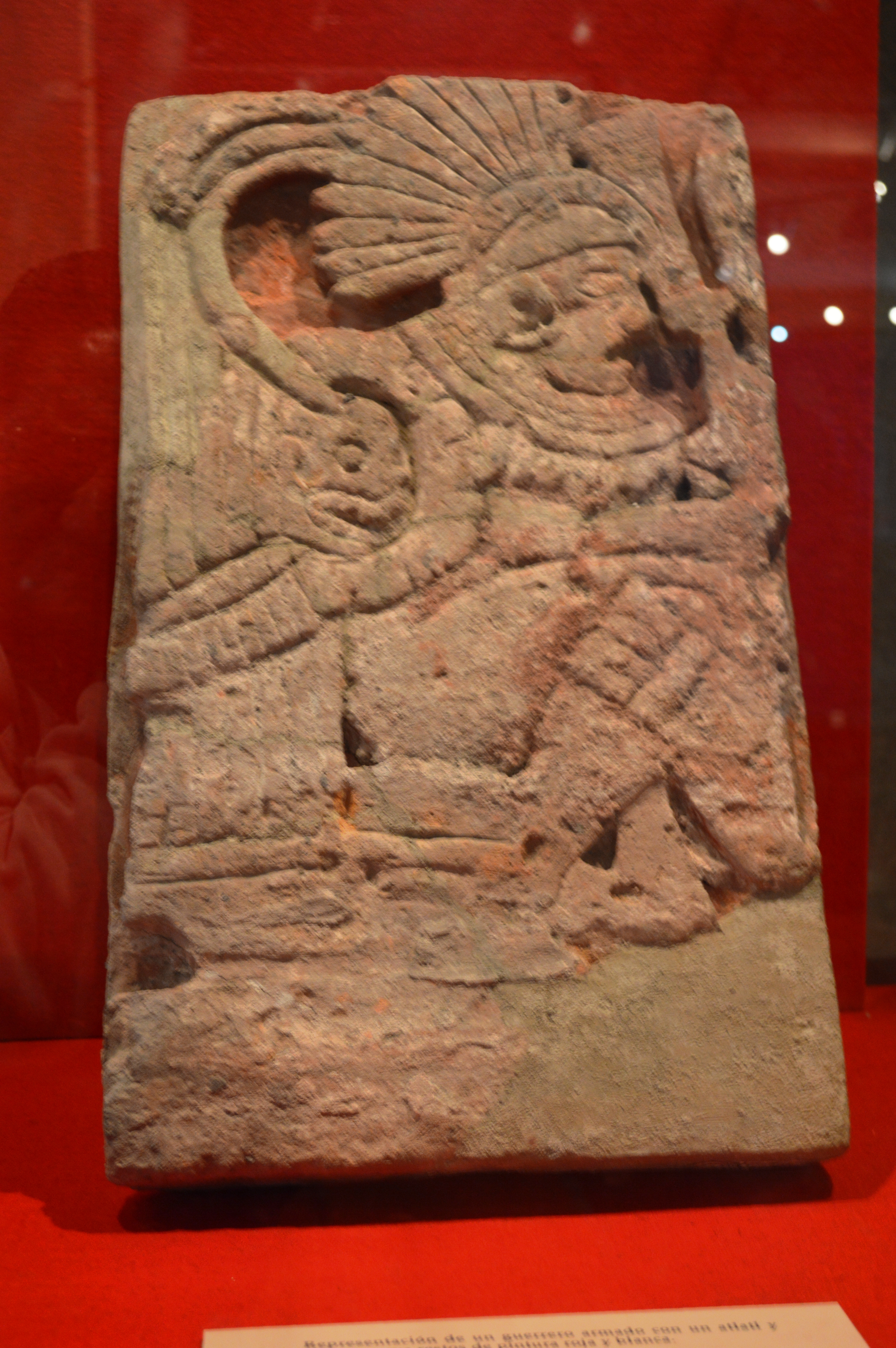 Relief of a warrior with atlatl and darts, showing remnants of red and white paint. At the Jorge R. Acosta museum at the Tula archeological site in Mexico